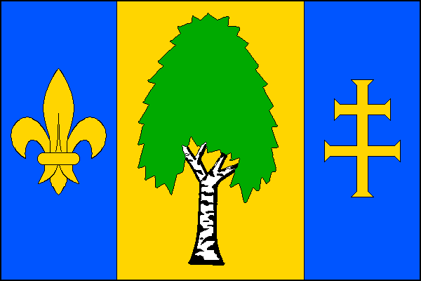 Flag of the municipal corporation Březová UH (Czech Republik)